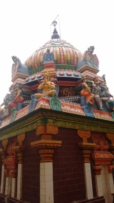 ThanjavurManambuchavadi navaneethakrishnan temple தஞ்சாவூர்மானம்புச்சாவடி நவநீதகிருஷ்ணன்கோயில்